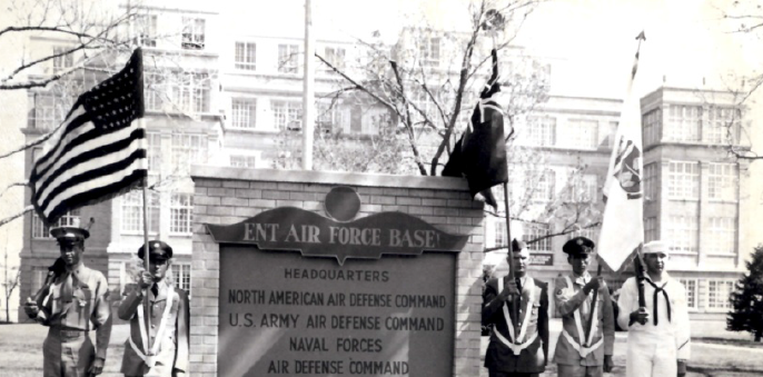 After the City of Colorado Springs purchased the National Methodist Sanitorium in 1943, the WWII en:2d Air Force leased a building from the city and this photo shows a 5th floor added to the sanitorium building.